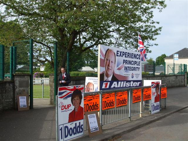 Election day, Omagh. Campsie Primary school is one of the locations where the pupils have the day off due to the voting.